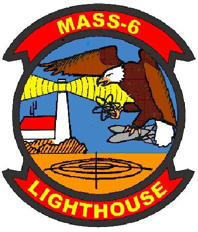 logo for Marine Air Support Squadron 6